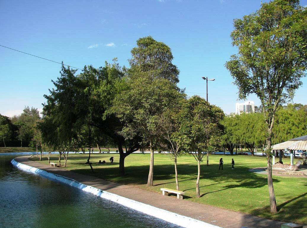 La Carolina Park